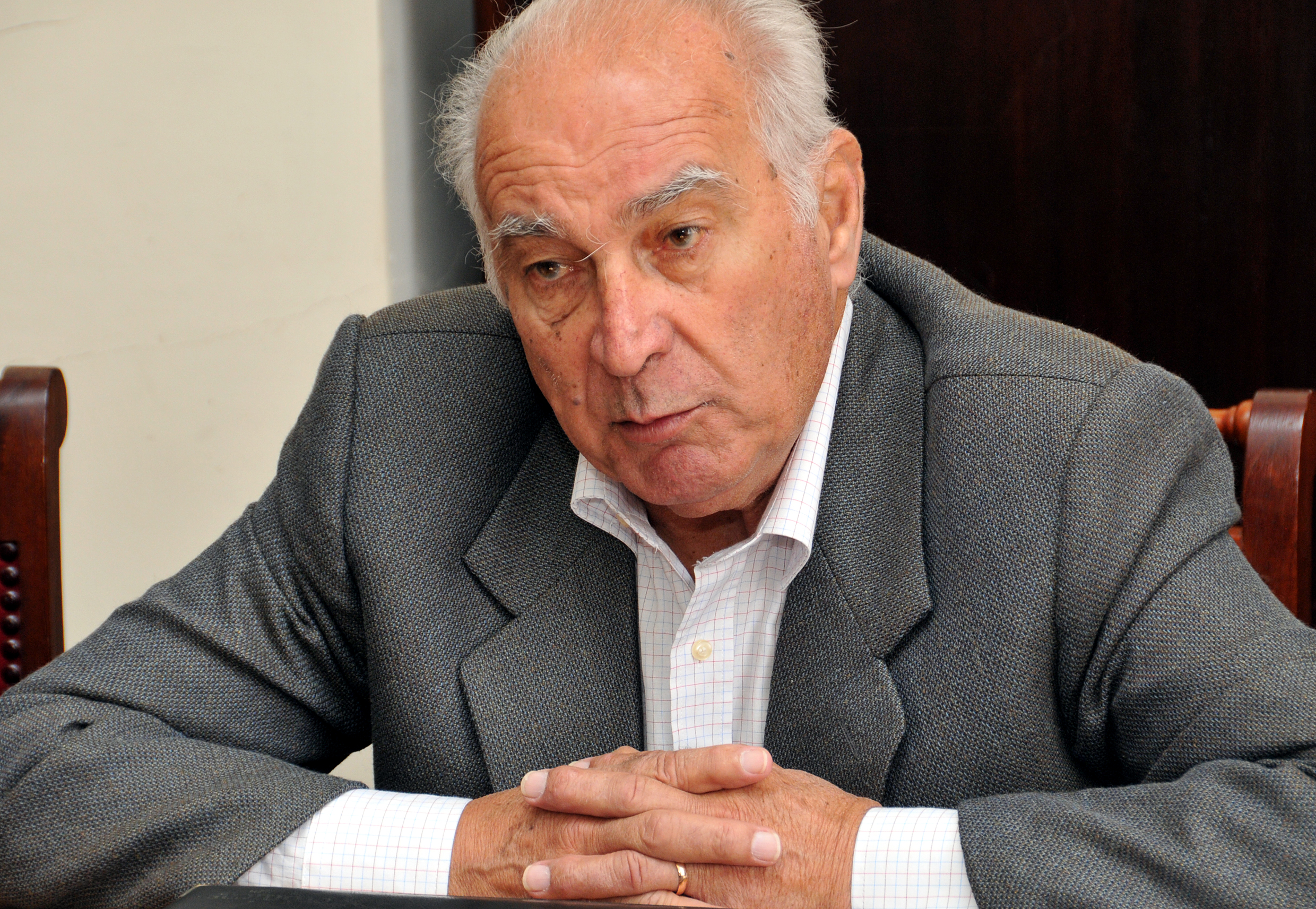 Governor of Rocha, Artigas Barrios